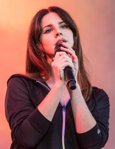 Lana Del Rey performing during her show at 2017 KROQ Weenie Roast festival in Carson, California, United States.